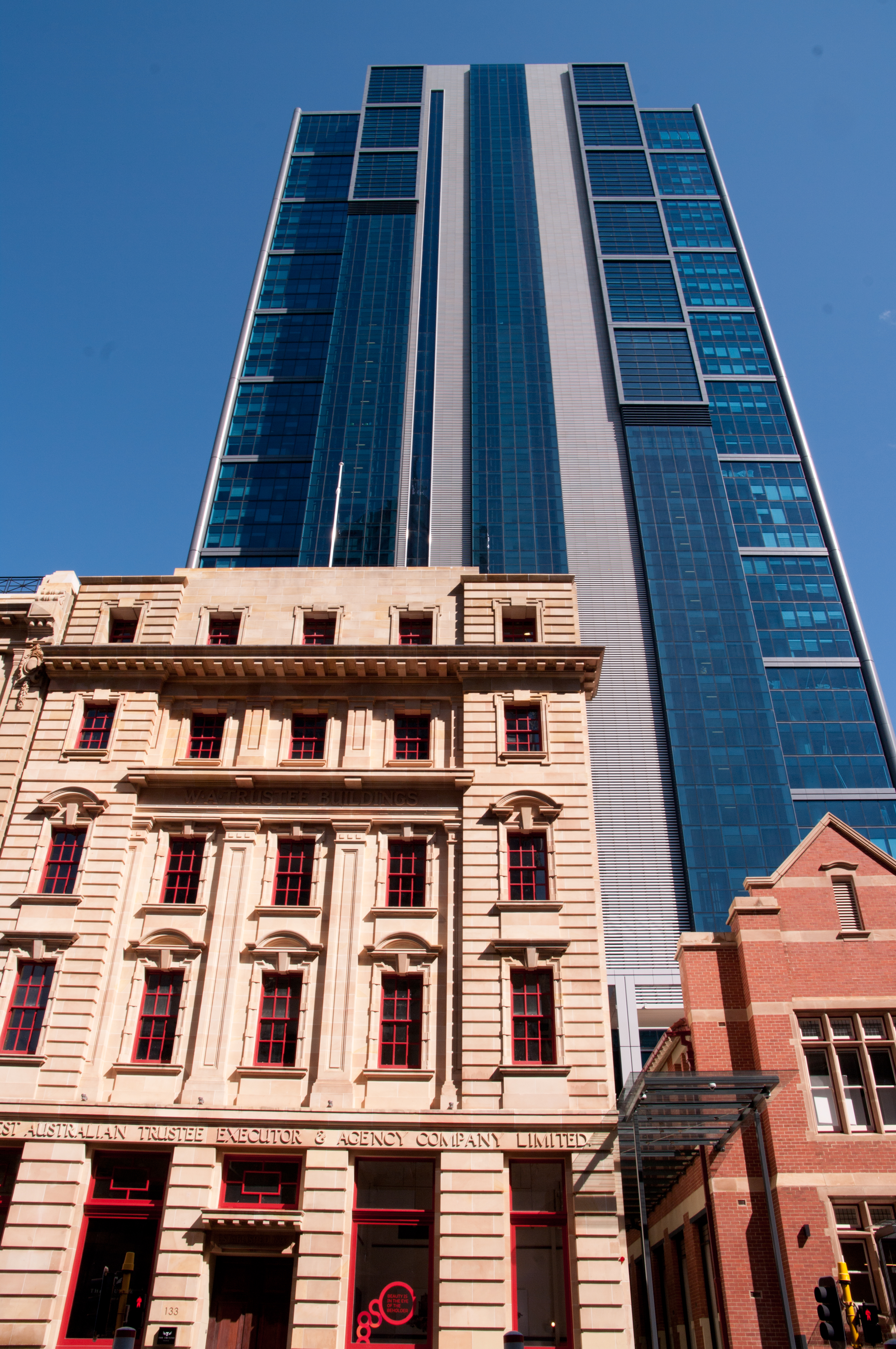 BHP tower behind the WA Trustee building